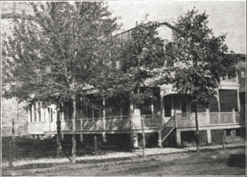 Club house of the St Nicholas Roman Catholic Church of Passaic, which briefly served as the St.Mary's Hospital facillity.